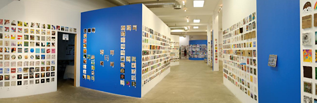 Installation of 6x6 small art exhibition in Rochester, NY.